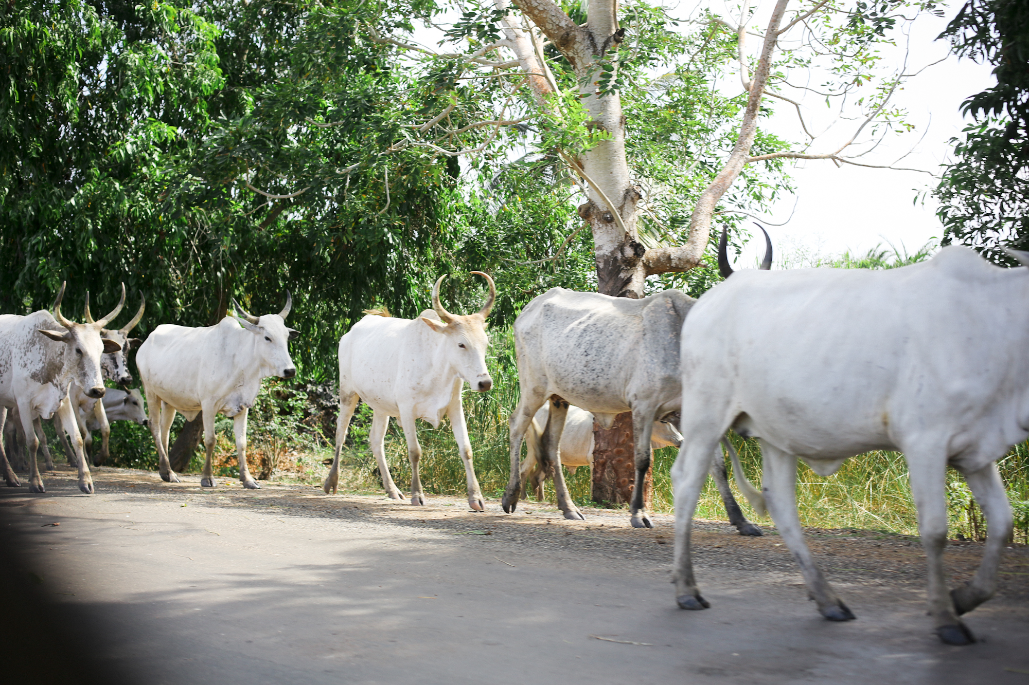 Herding Bovine (cows) in Ashanti